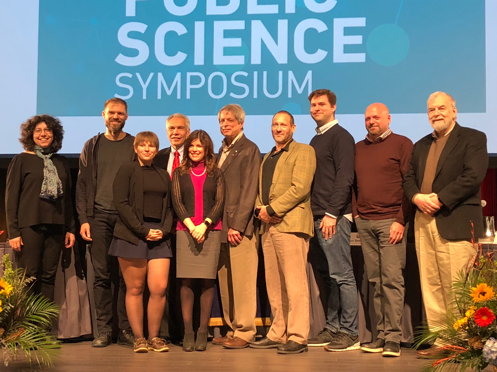 Panel speakers at a symposium held in Montreal on October 29, 2018, by the McGill Office for Science and Society. Left to right: Doina Precup, Derek Ruths, Ada McVean, Joseph Schwarcz, Tal Arbel, Lorne Trottier, Cameron Smith, Alex Shee, Ian Kerr, Kenneth Foster.